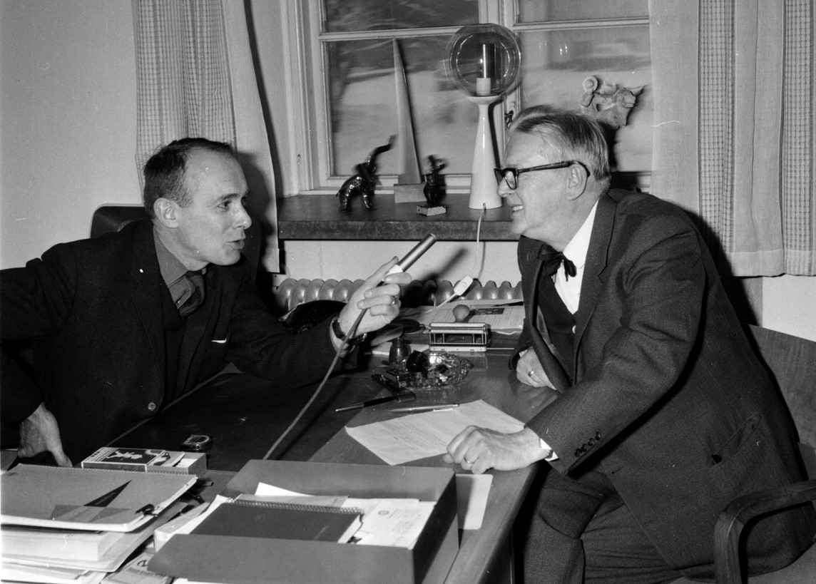 Bollnäs Art Centre, Sweden. Tryggve Örn, S. Jäderström